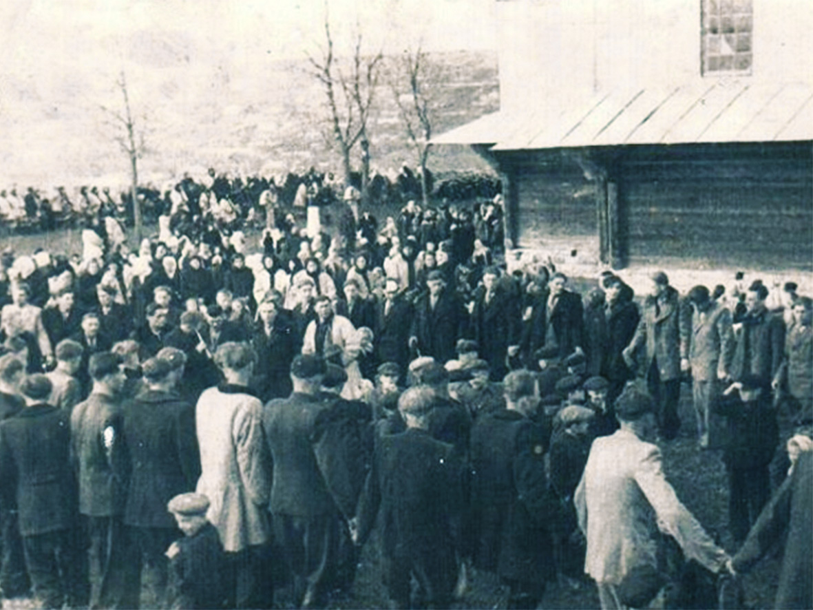 Serben (Easter dance) in the Subcarpathian village Chortovets (Ukraine)